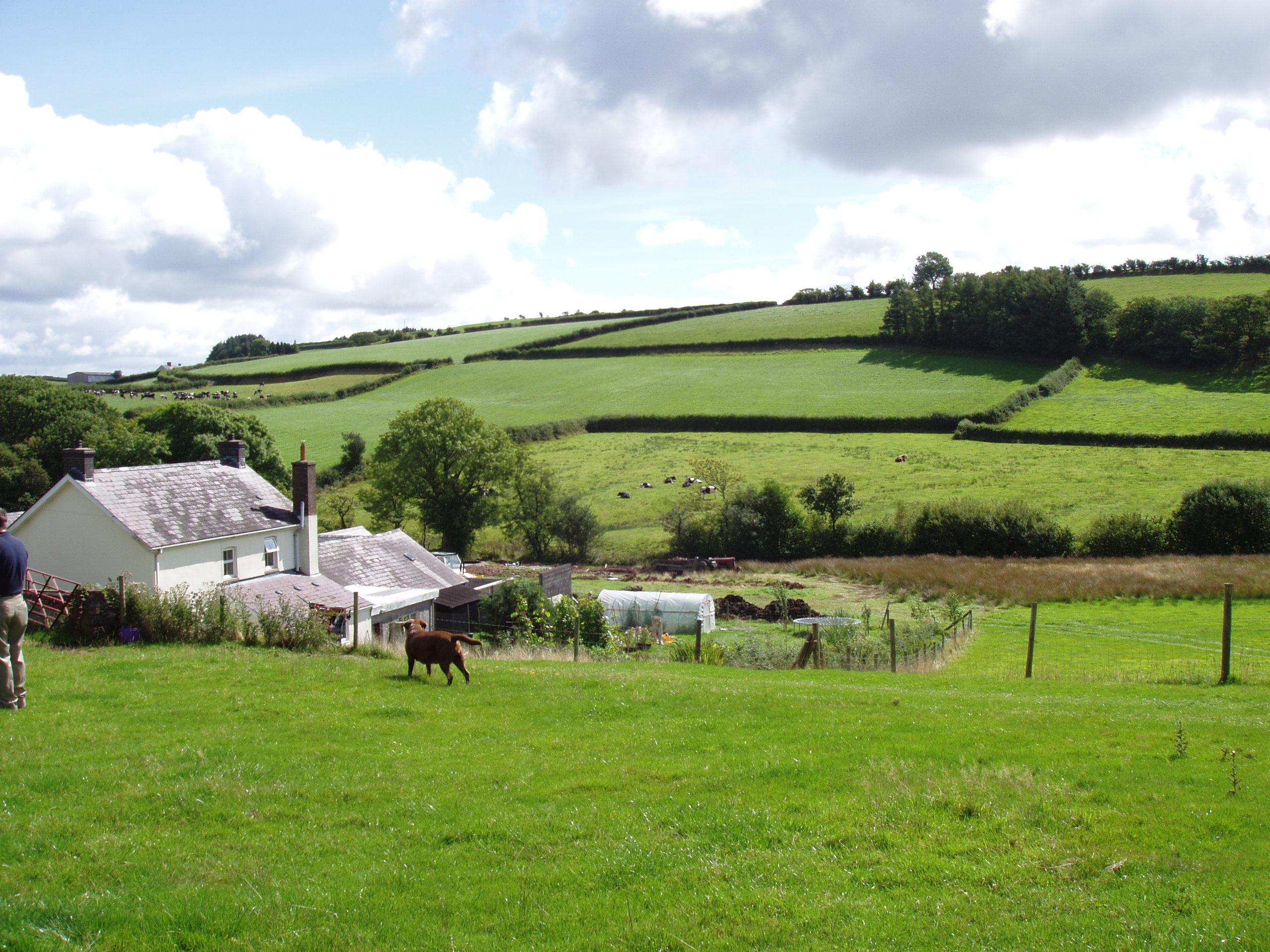 Countryside of the western portion of the parish.